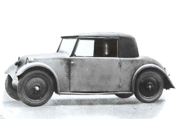 Initial prototype of Tatra v570 from 1931